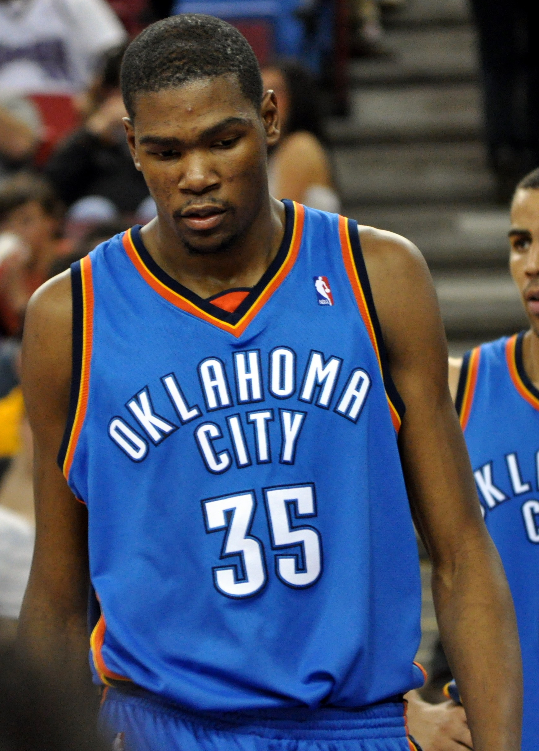 Kevin Durant of the Oklahoma City Thunders at ARCO Arena.